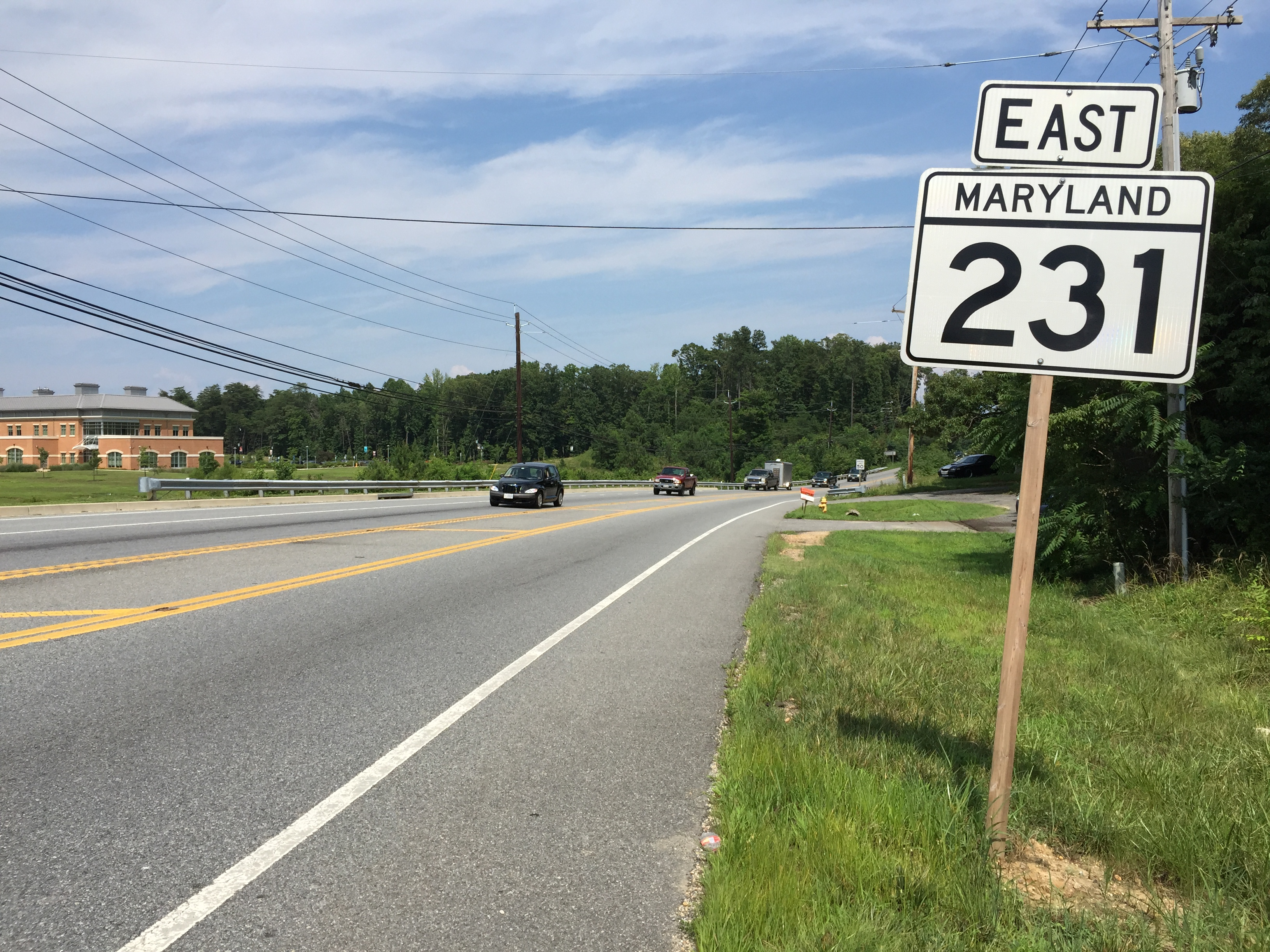 View east along Maryland State Route 231 (Hallowing Point Road) at J W Williams Road in Barstow, Calvert County, Maryland